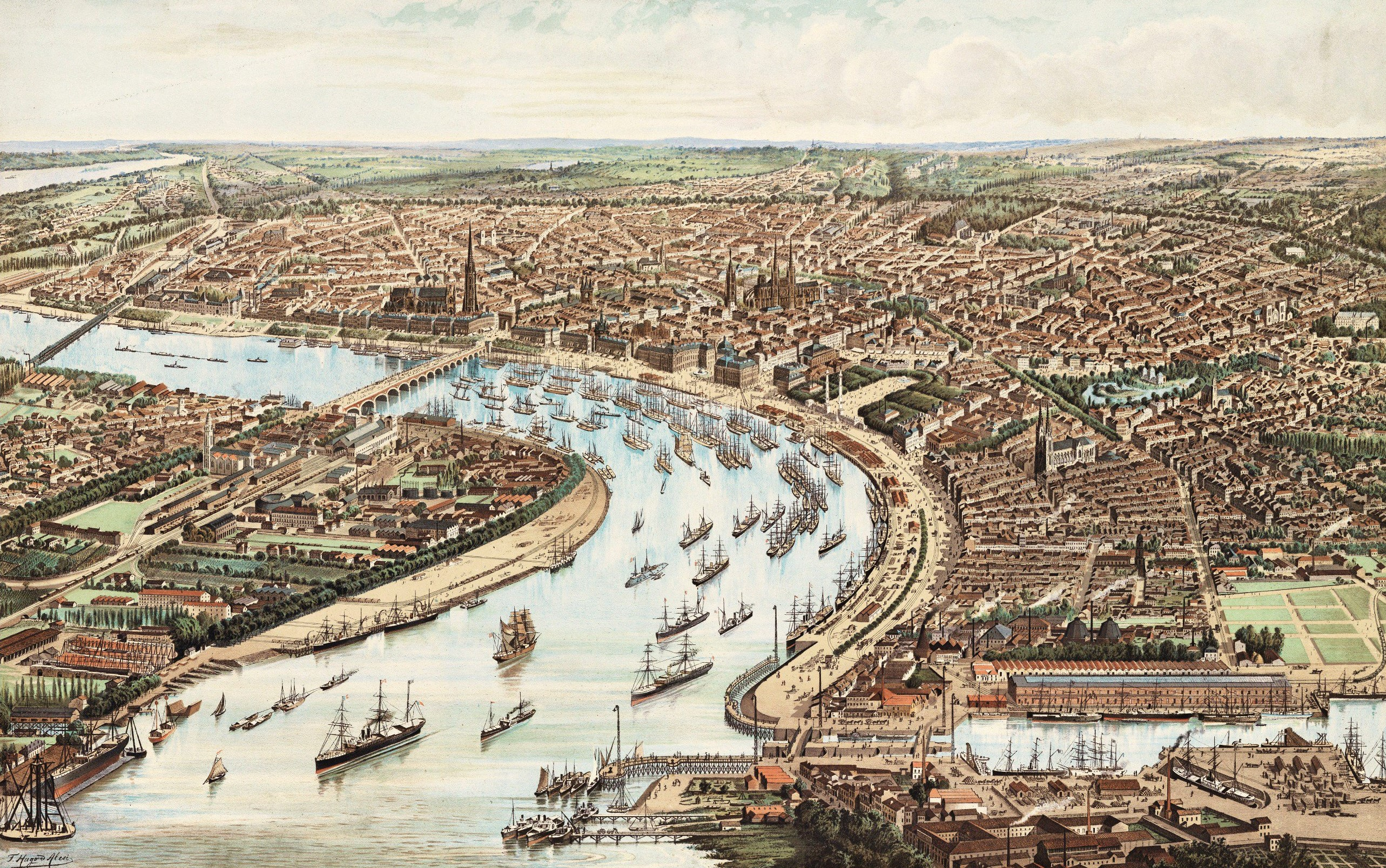 Aerial view of Bordeaux by Hugo d'Alesi, 1899. Archives of Bordeaux metropole.